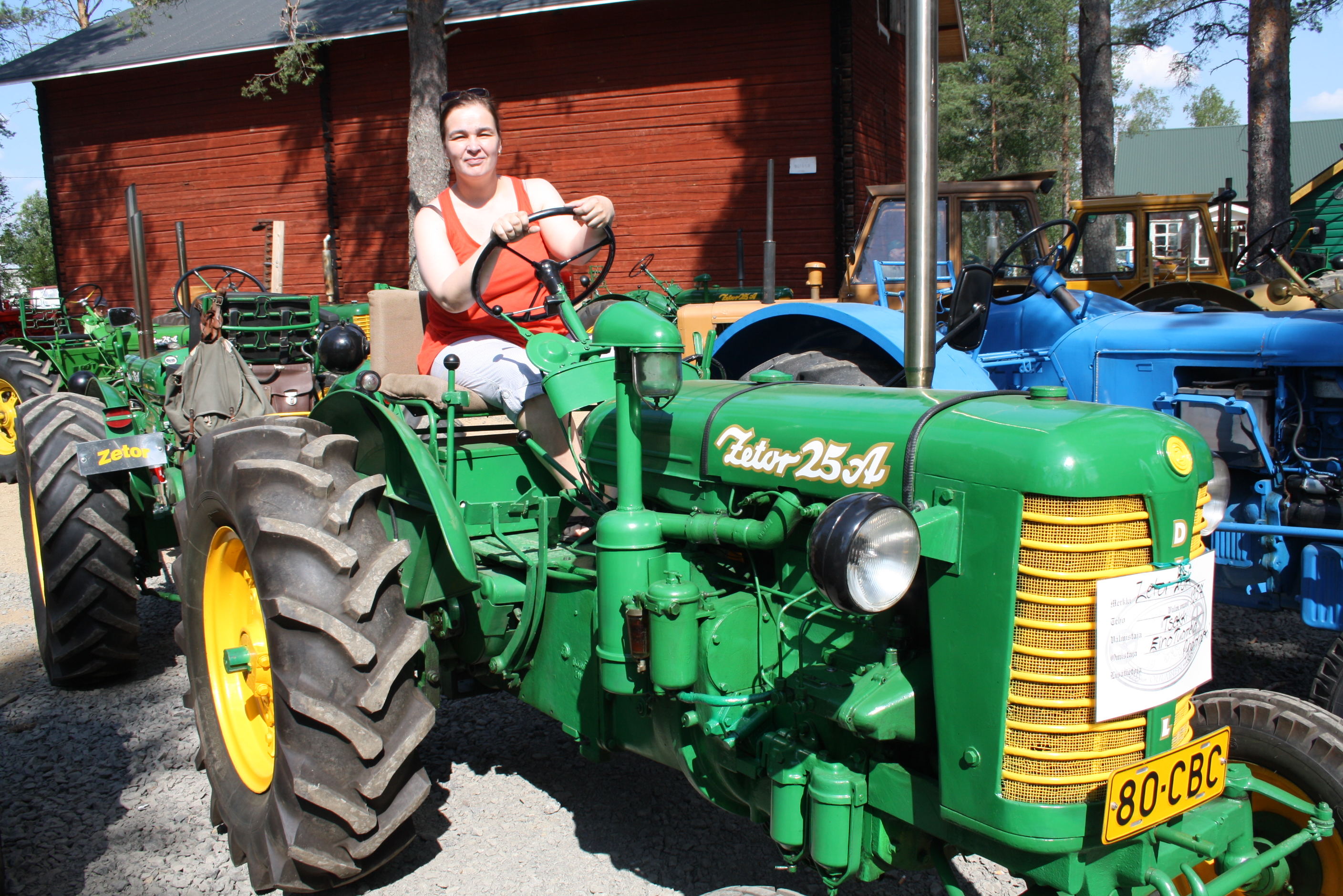 Zetor A 25 Vintage and Tradition days to Oulainen Finland